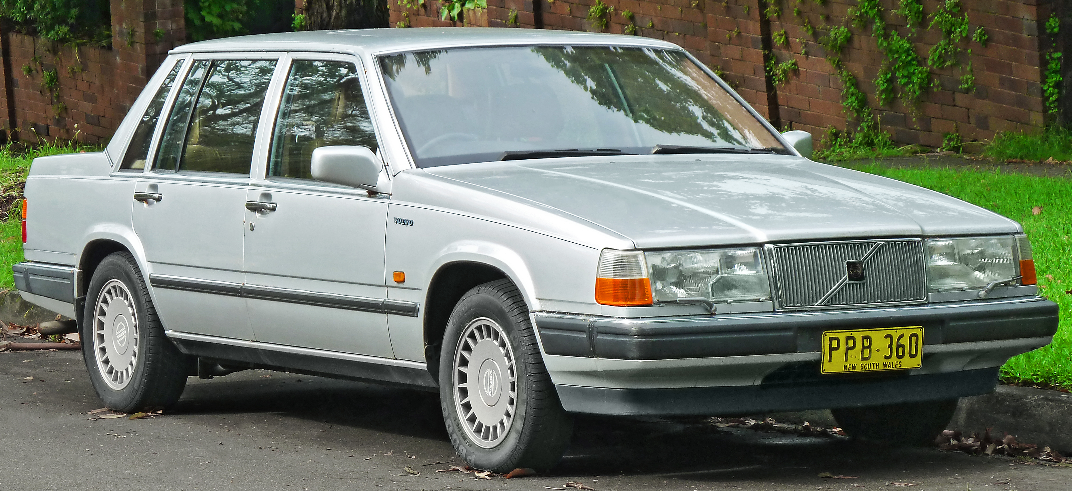 1989 Volvo 760 GLE sedan. Photographed in Gordon, New South Wales, Australia.